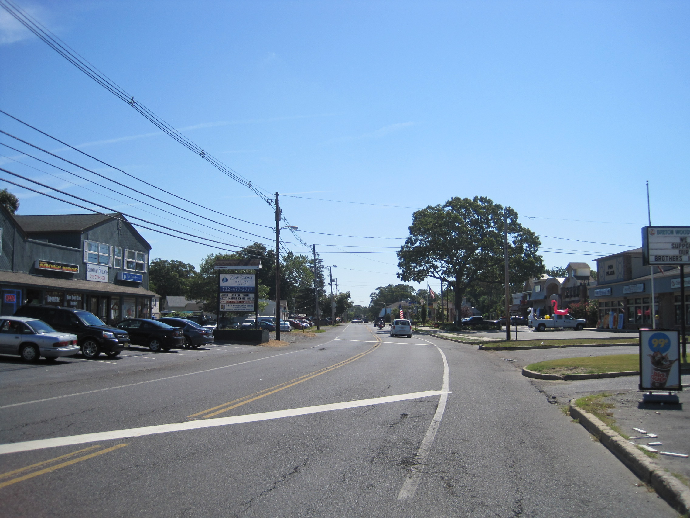 Photo of Breton Woods, New Jersey, an unincorporated community within Brick Township. Photo taken along eastbound Mantoloking Road (County Route 528) past McKay Drive.